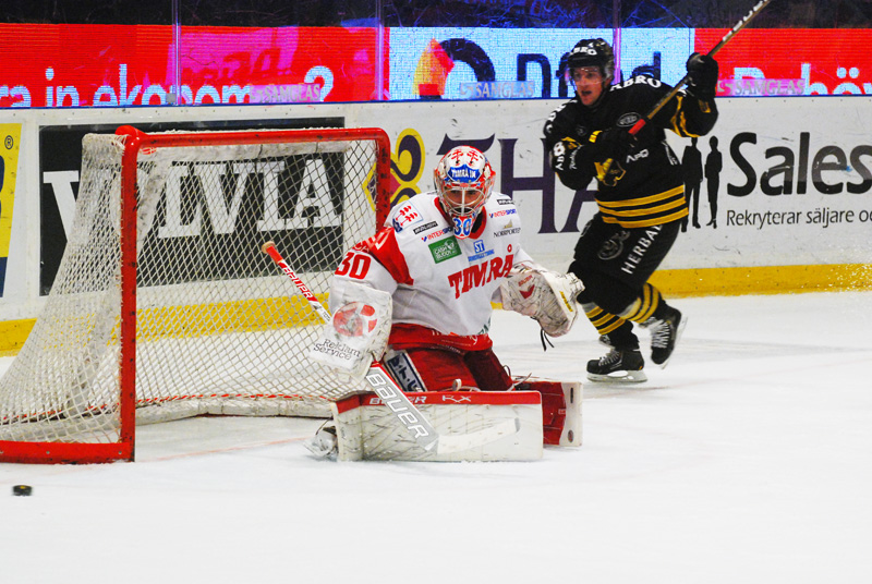 Ice hockey goaltender Daniel Bellissimo of Timrå IK during a game against AIK in November 2012